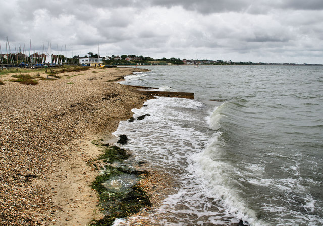 The beach at Titchfield Haven Looking east towards Hill Head.